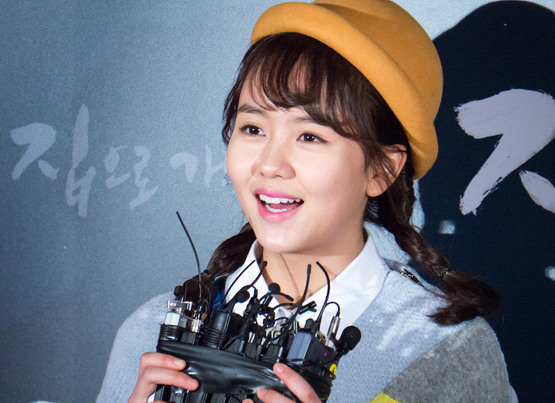 Actress Kim So-hyun attended Way Back Home VIP premiere on December 6, 2013.